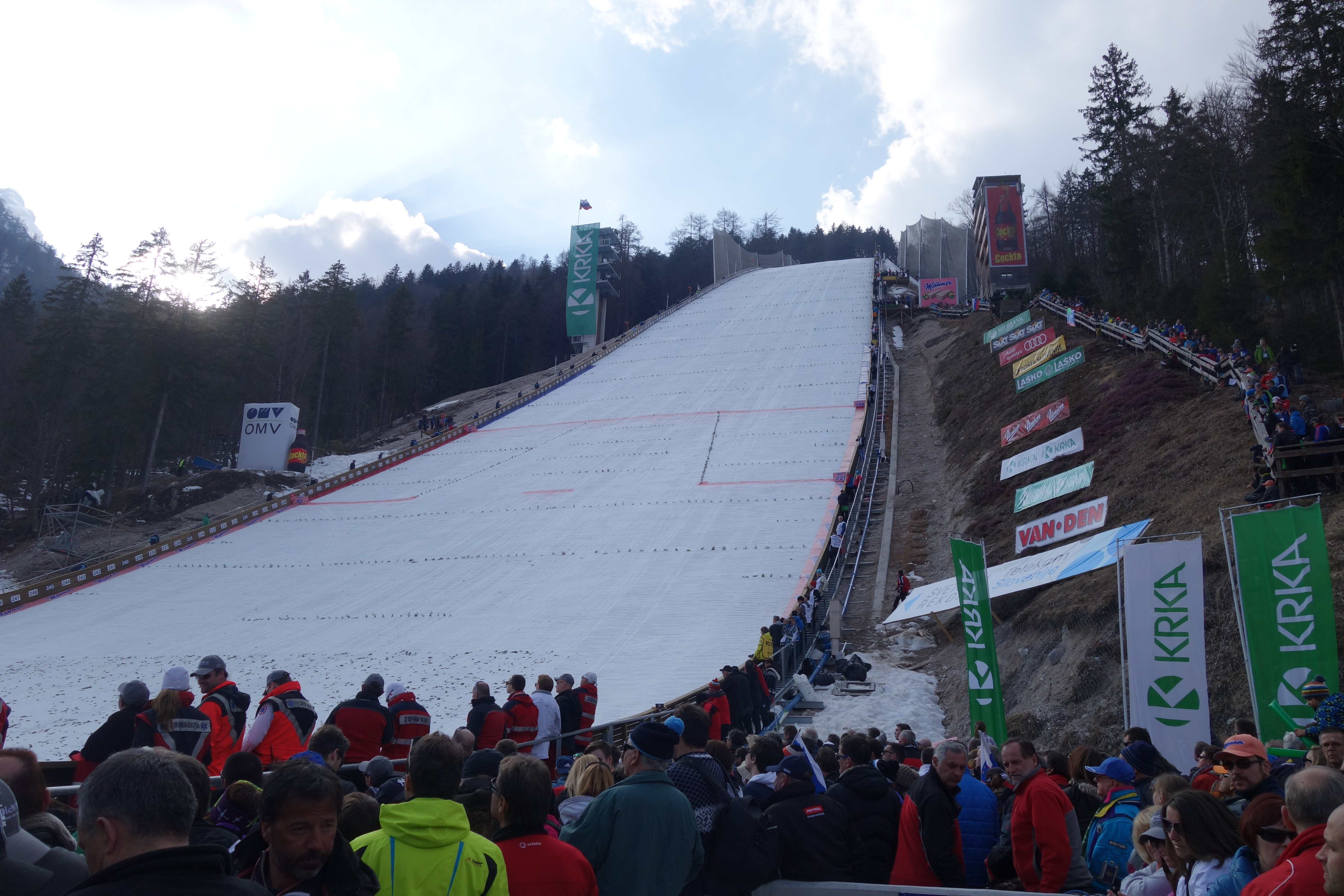 Planica ski jumping World Cup.